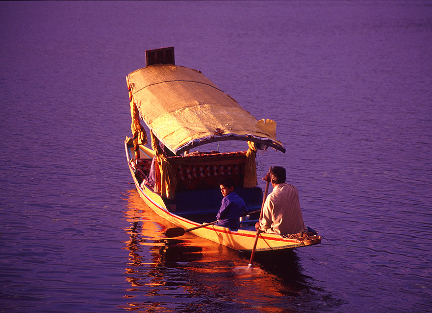 Shikhara on Dal Lake, Srinagar, Jammu & Kashmir, India. Photo by Paul La Porte.